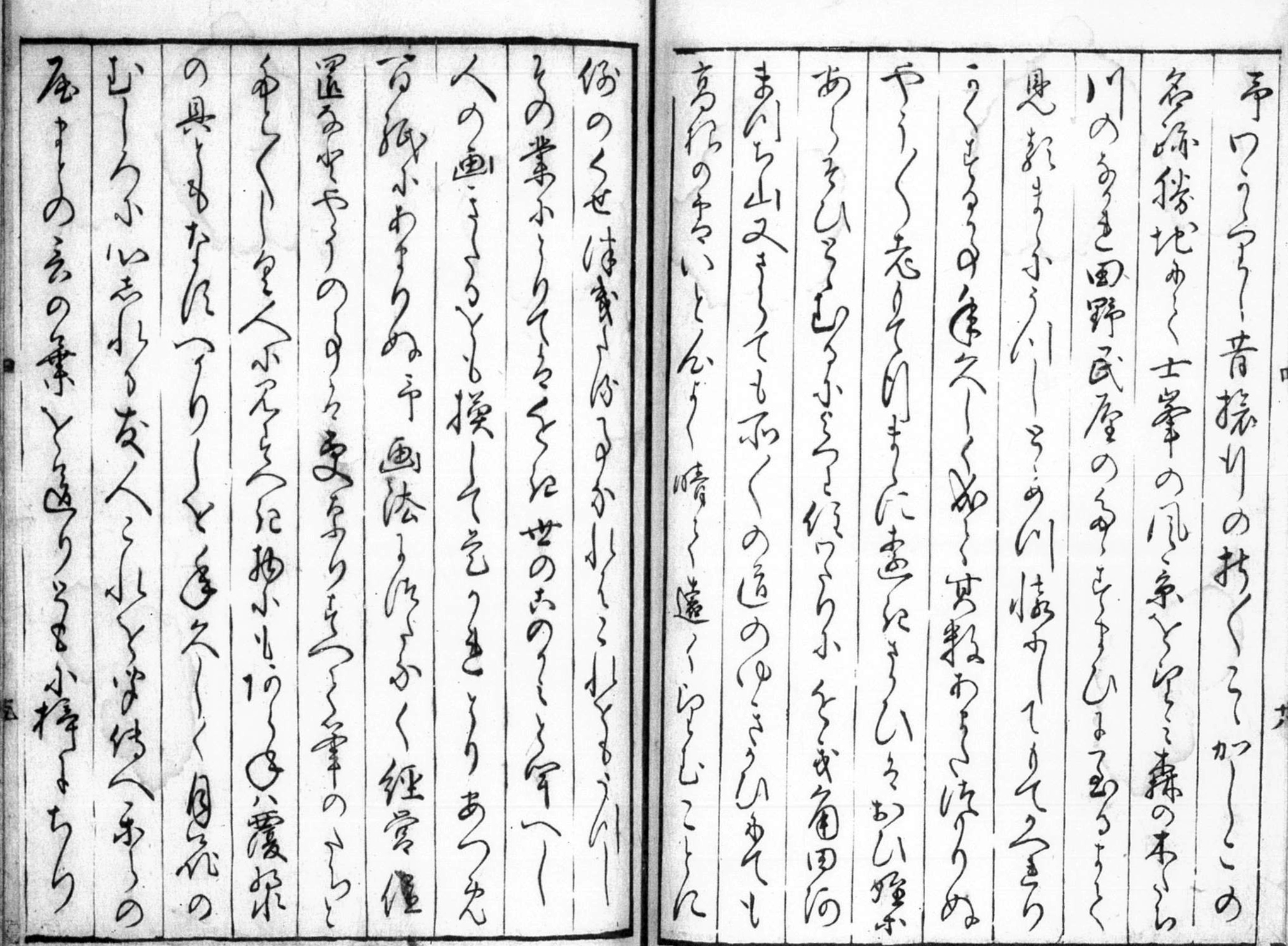 We can know who is KAWAMURA Minsetsu this text.